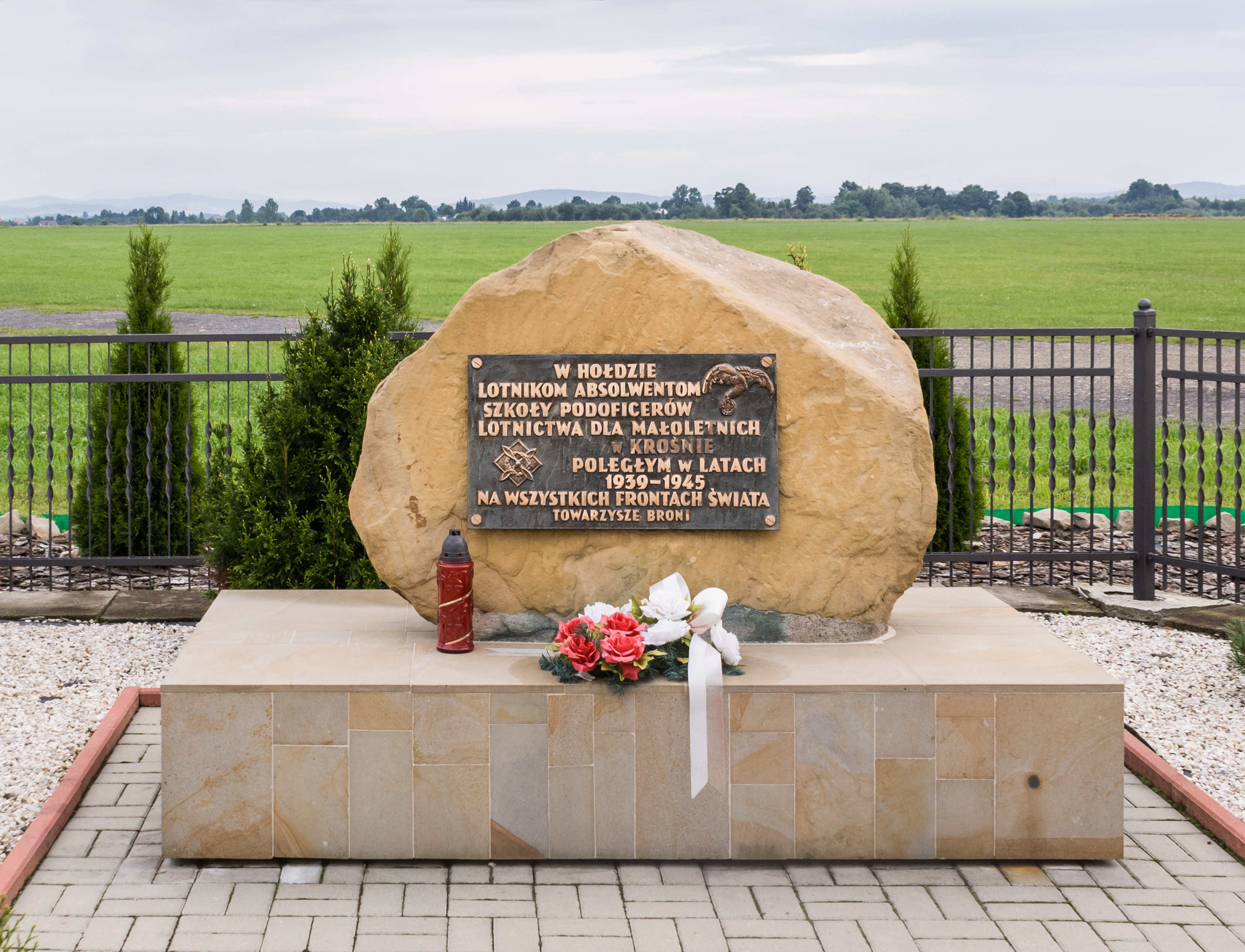 Monument to Polish airmen who was killed during the World War II, Krosno Airport, Poland.